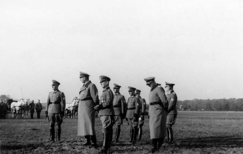 Besichtigung der Pol. Reiterzüge in Rathenow am 15.10.40 (2.v.l.) Kurt Daluege, (3.v.l.) Adolf von Bomhard Information added by Wikimedia users.Kurt Daluege, chief of Ordnungspolizei (2nd from l.) with Adolf von Bomhard, Orpo Generalleutnant for the Third Reich (3rd from l.) at the police academy at Rathenow in the summer of 1937.